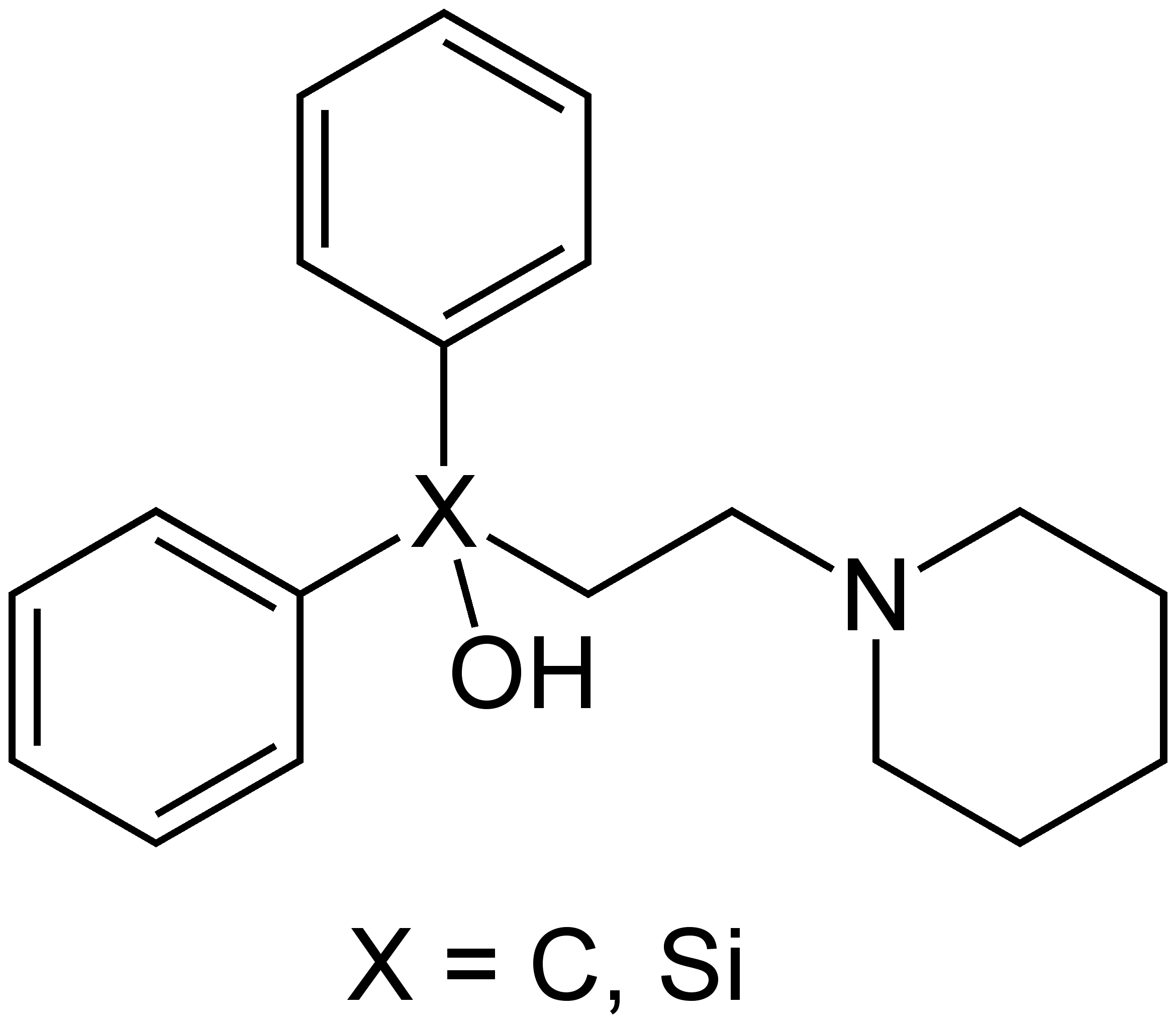 Pridinol_&_Sila-Pridinol